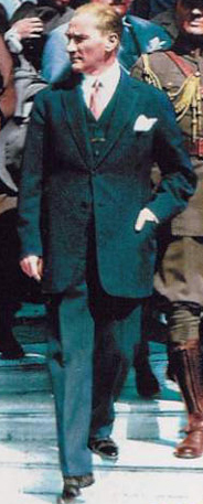 Mustafa Kemal Atatürk (1881-1938) in Istanbul